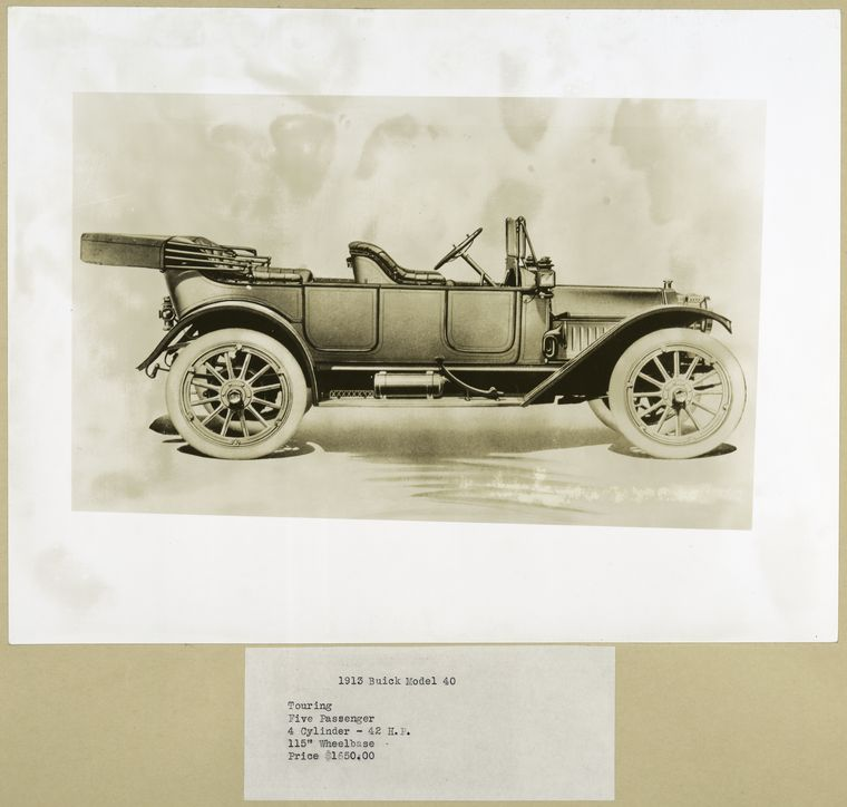 1913 Buick Model 40 - Touring - five passenger Digital ID: 481883 Source: Photographs of General Motors and Chrysler car and truck models, 1902 - 1938. / General Motors Company. Buick 1904-1938 Photographs, Specifications. (more info) Repository: The New York Public Library. Science, Industry and Business Library. General Collection Division. See more information about this image and others at NYPL Digital Gallery. Persistent URL: Rights Info: No known copyright restrictions; may be subject to third party rights (for more information, click here)